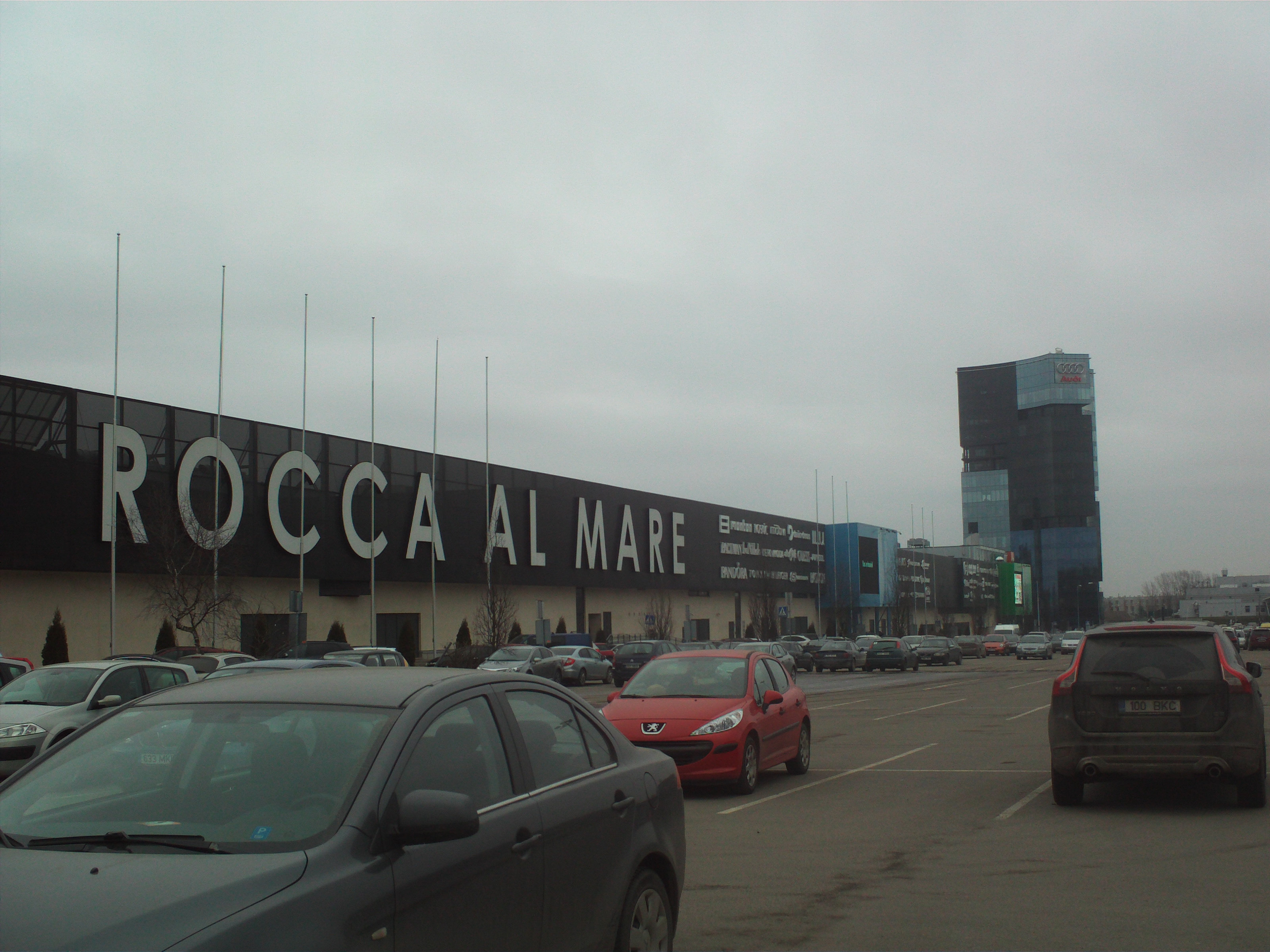 Rocca al Mare, Tallinn's largest shopping mall.